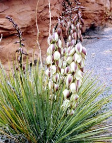 Yucca harrimaniae NPS photo